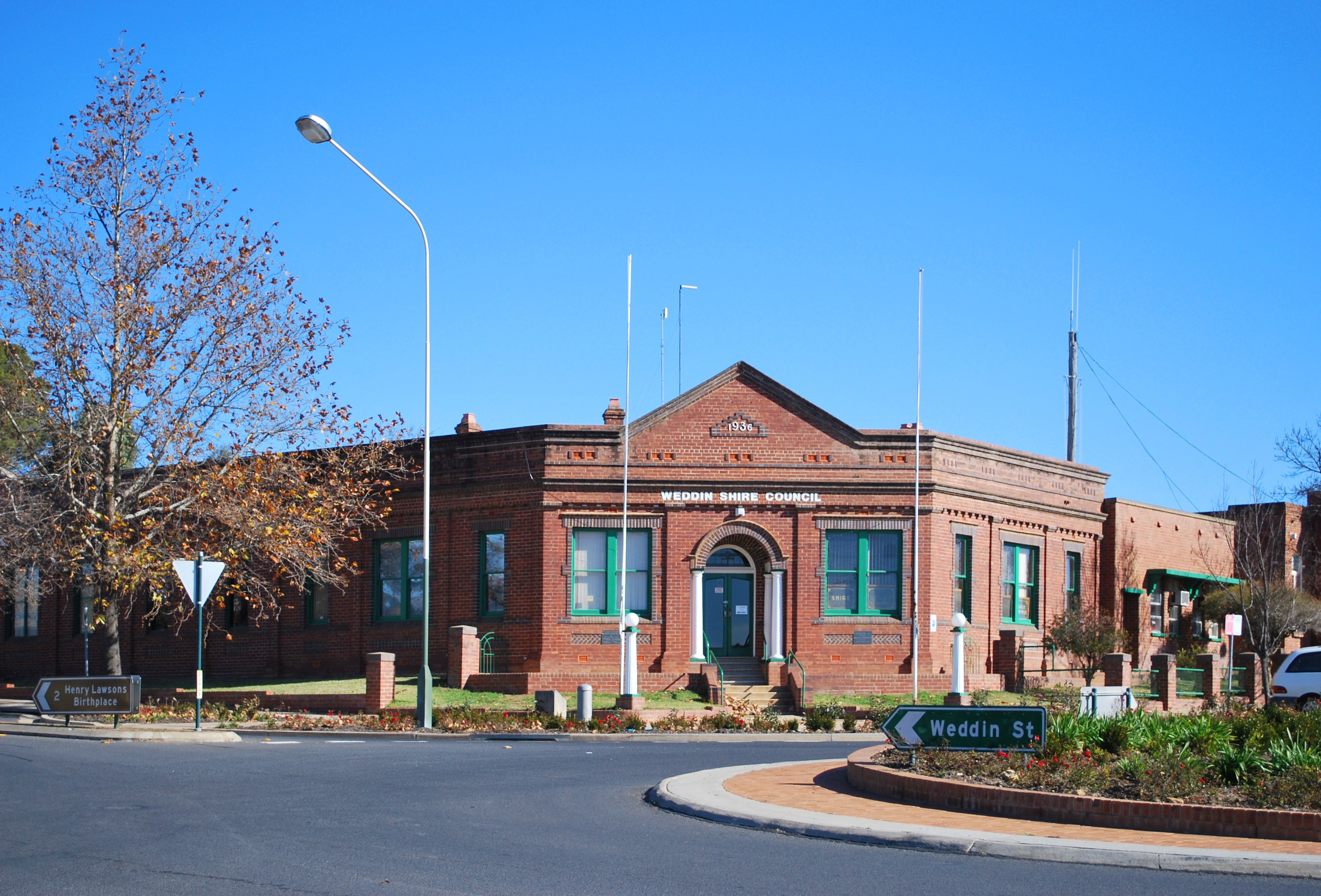 Weddin Shire Council offices at Grenfell, New South Wales